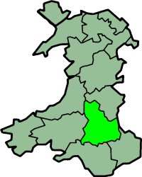 one of the Historic counties of England